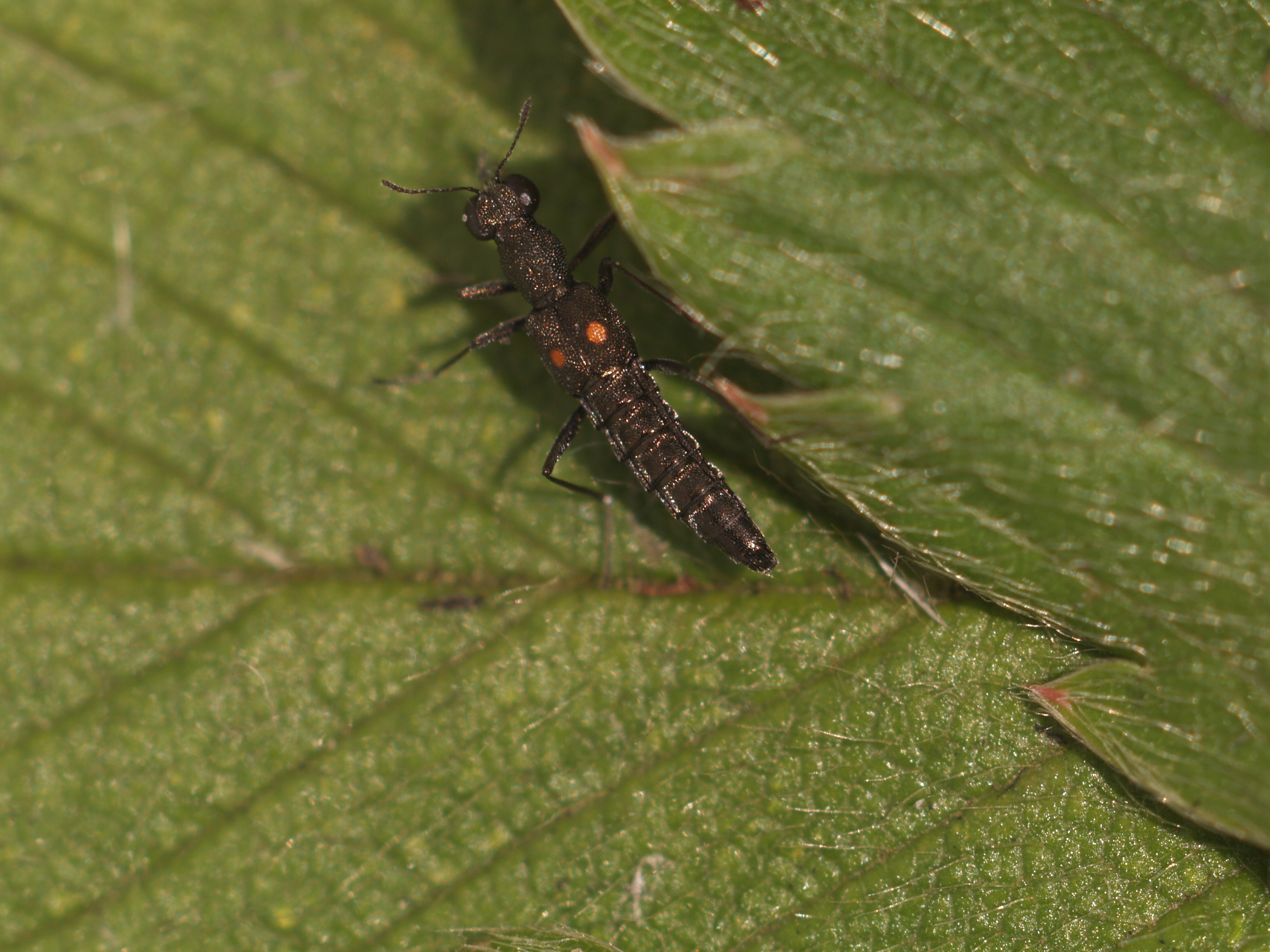 Stenus biguttatus